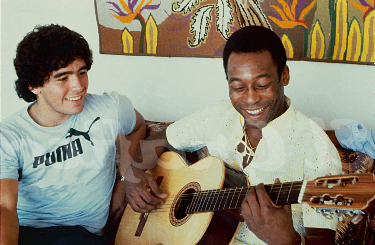 Diego Maradona (left) and Pelé, together during an interview in El Gráfico.